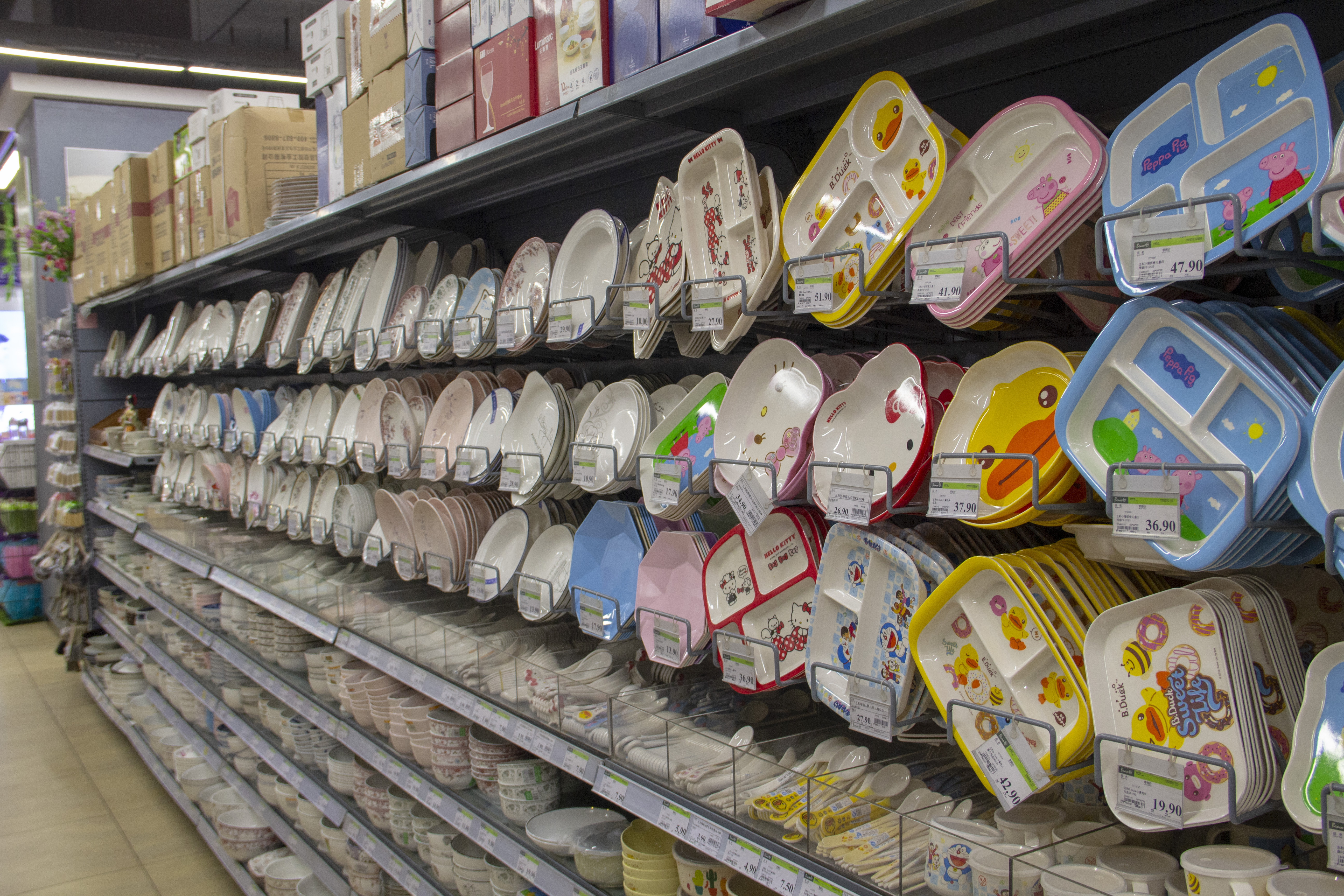 lunch boxes